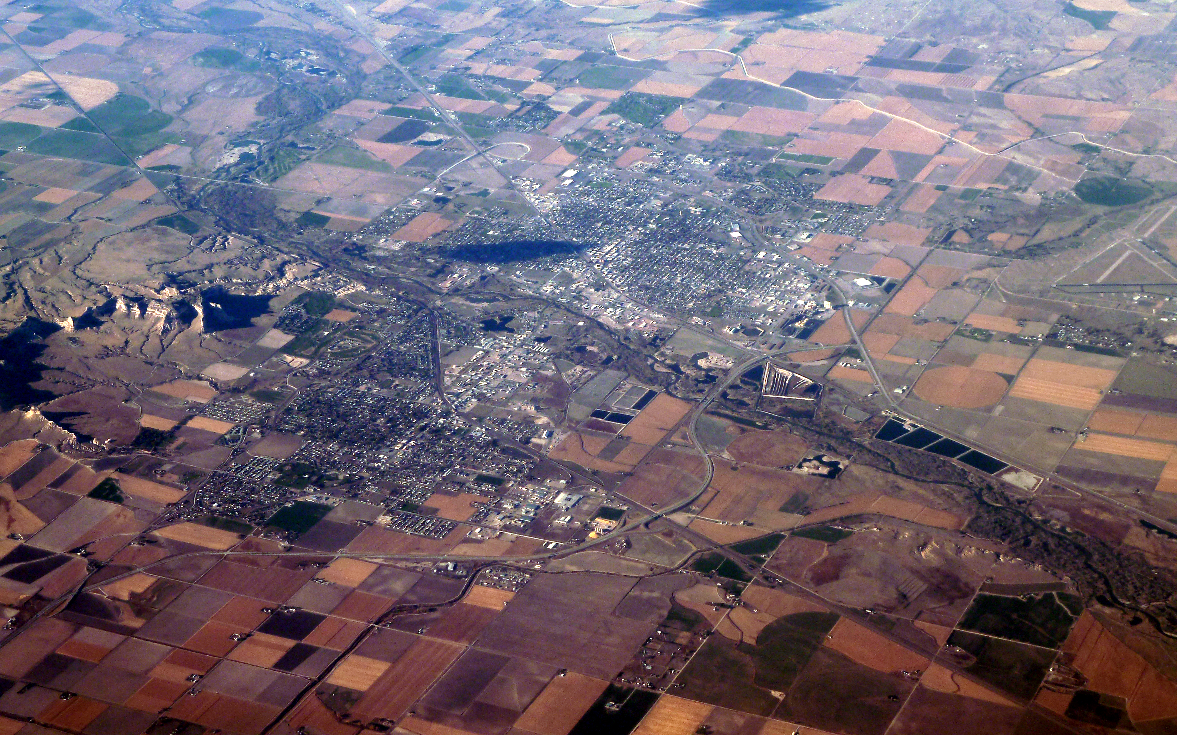 Aerial photograph of Scottsbluff, Nebraska, USA.